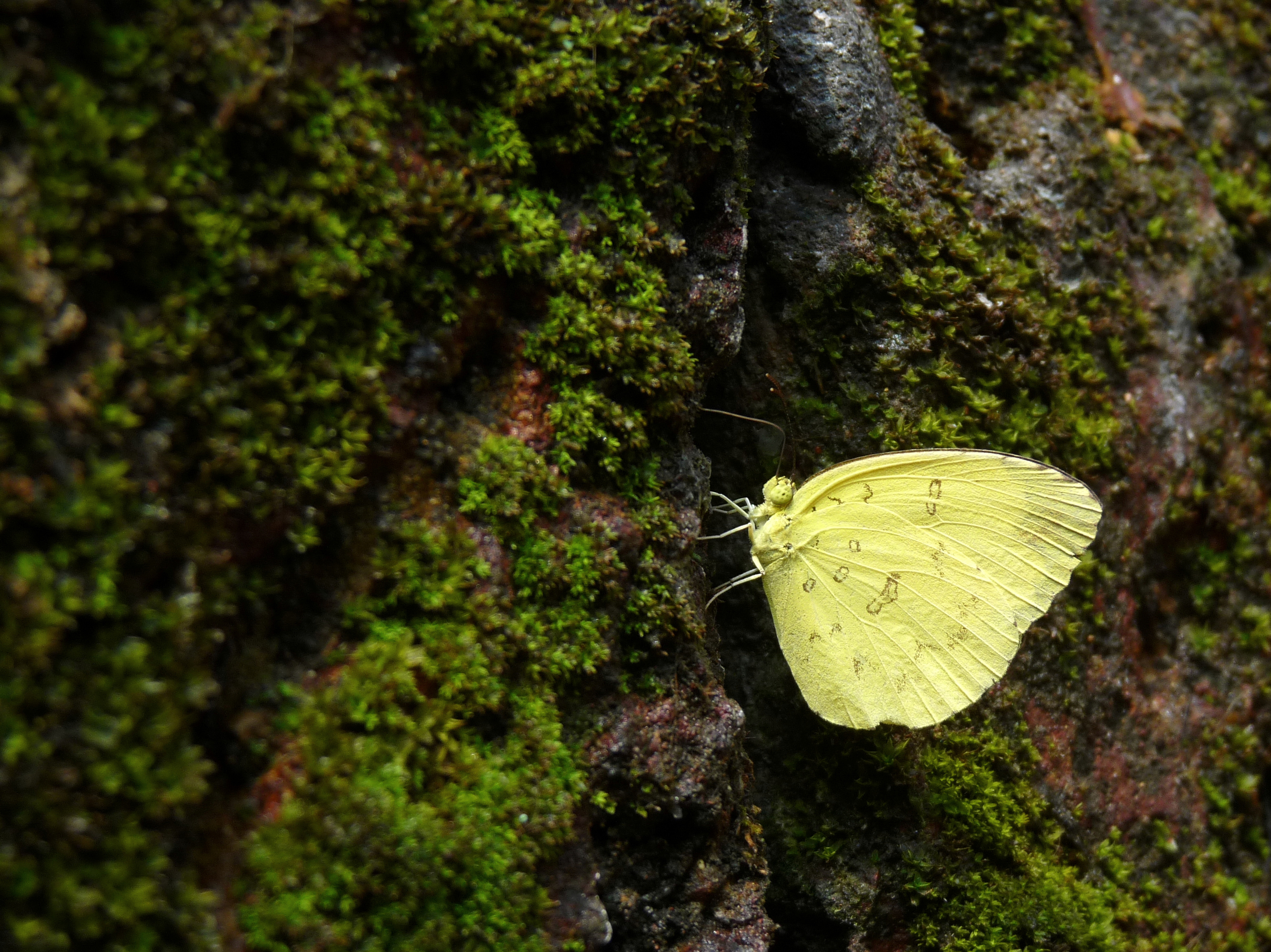 Eurema blanda, Three-Spot Grass Yellow, is a small butterfly of the family Pieridae, the Yellows and Whites, which is found in Asia.